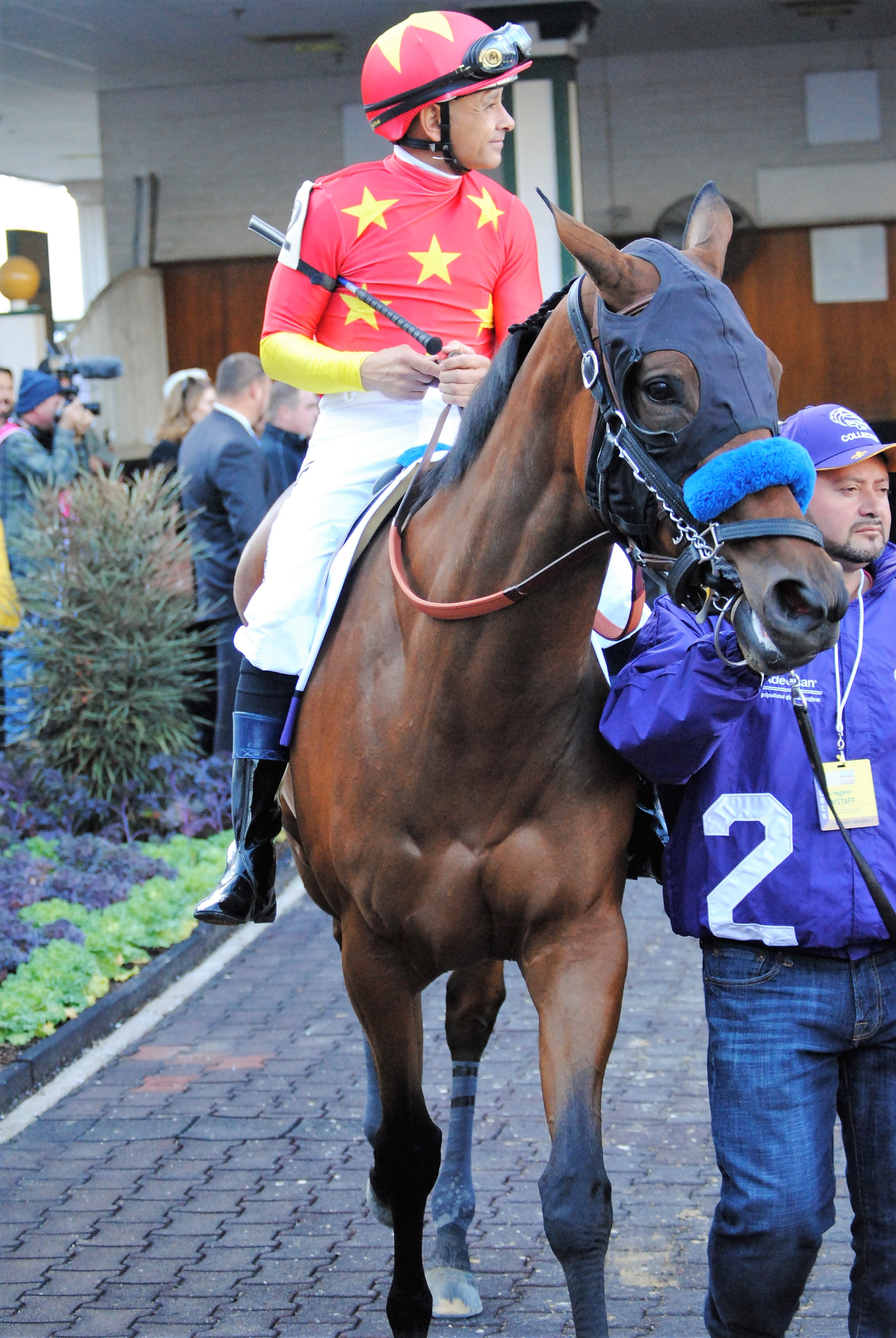 Abel Tasman and Mike Smith at the 2018 Breeders' Cup